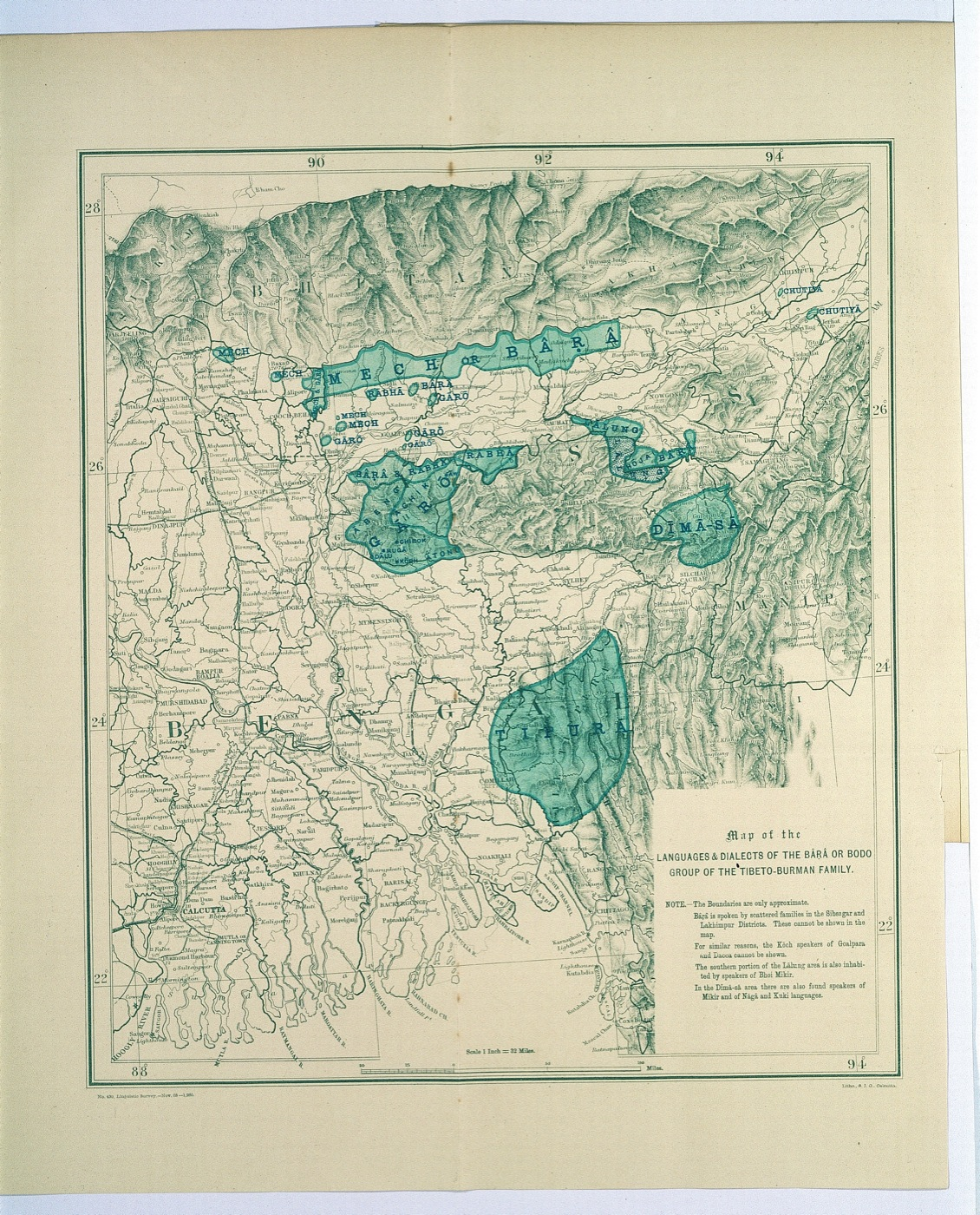 Map from the Linguistic Survey of India (1903), Vol. III Tibeto-Burman Family; Part II Specimens of the Bodo, Naga, and Kachin Groups.